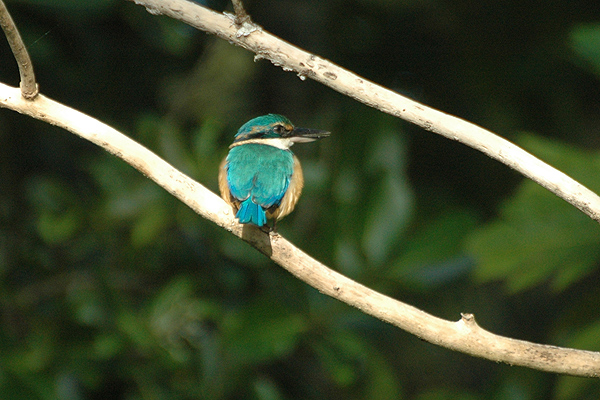 Female Collared Kingfisher (Todiramphus chloris vitiensis), Fiji